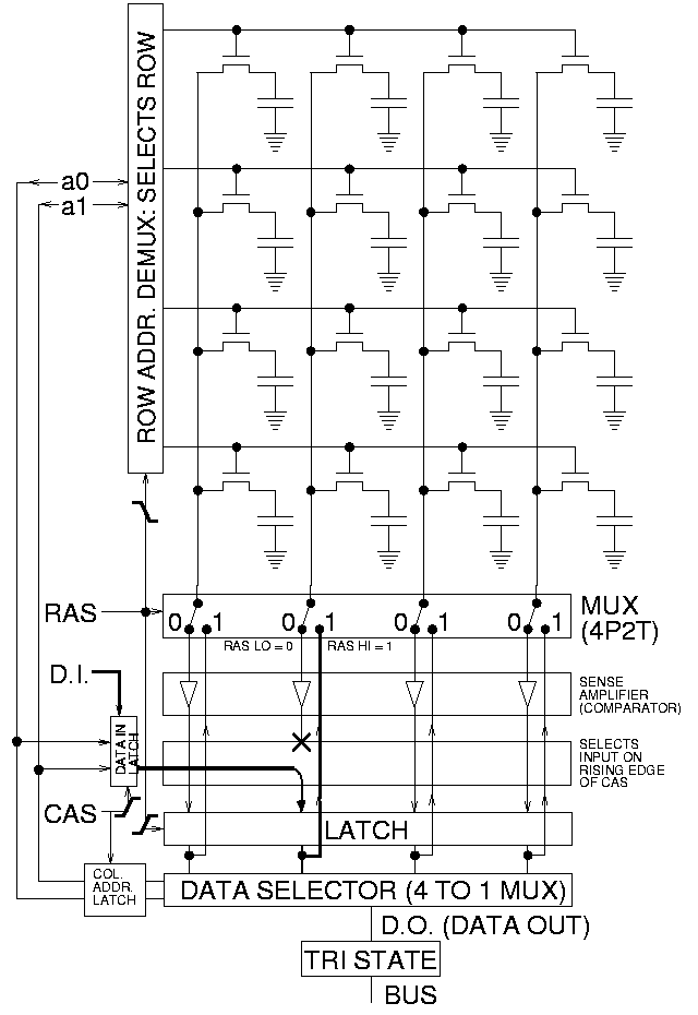 DRAM ece385 illustrative example I drew this with idraw for my ECE385 course, to illustrate how Dynamic random access memory (DRAM) works, with simple 4 by 4 array.